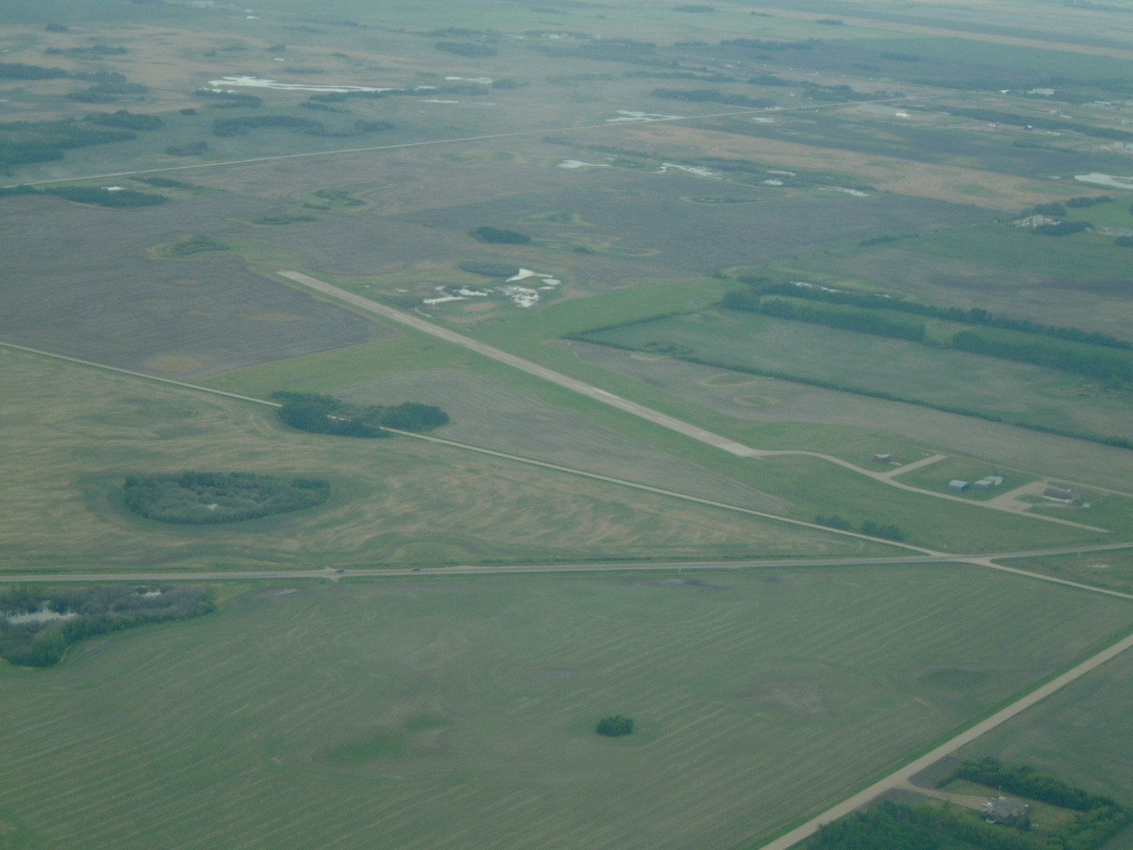 Humboldt Airport. Taken from 3500 feet ASL.